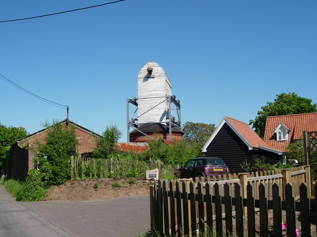 The conserved windmill at Friston, Suffolk